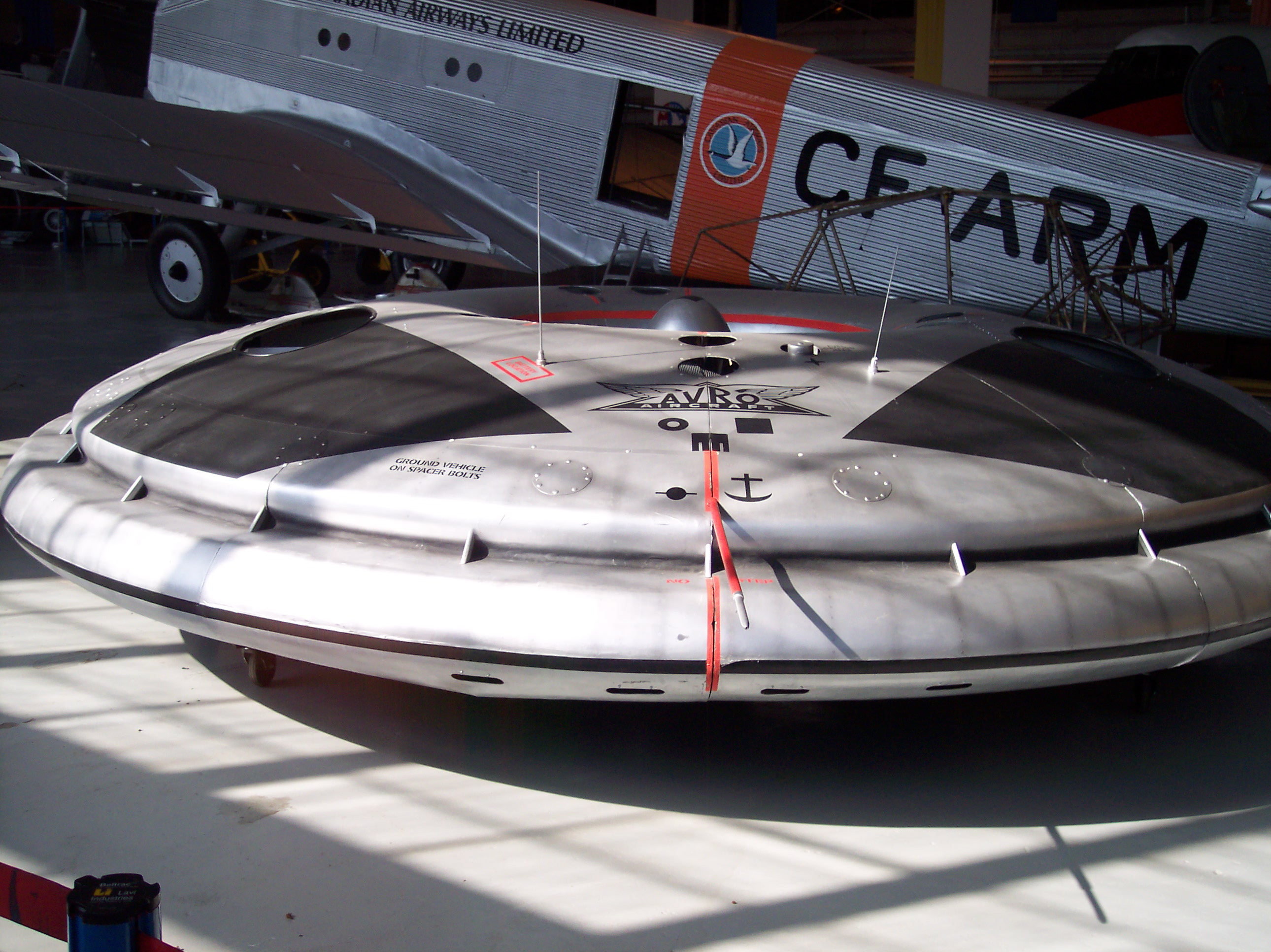 Avro Canada VZ-9 Avrocar on display at the Western Canada Aviation Museum. Note Junkers Ju-52/1m in background.